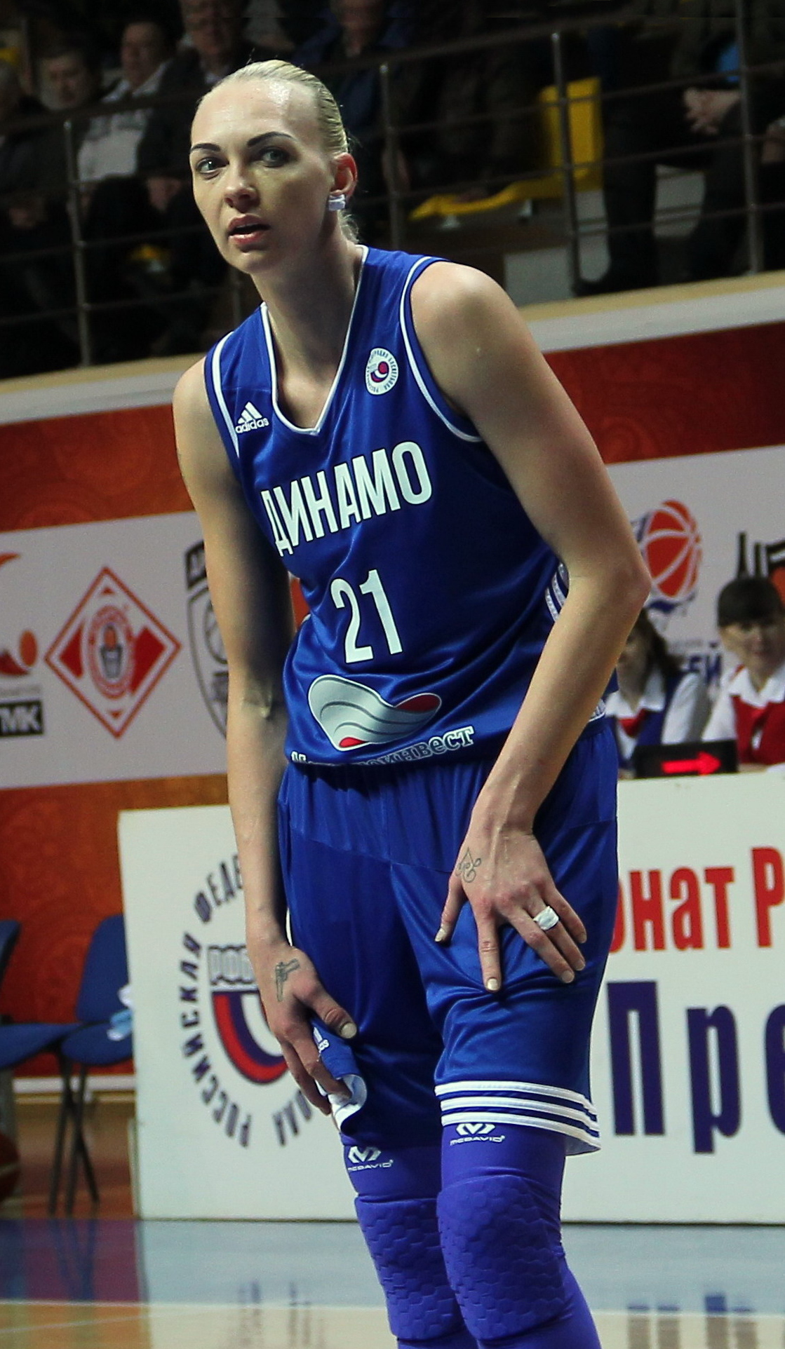 Russia, Vologda, Irina Osipova in game «Vologda-Chevakata» vs «Dinamo» (Kursk)